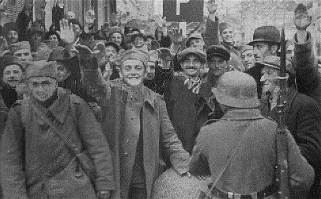 Yugoslav Macedonian soldiers surrendering to the Germans in Skopje, April 1941.